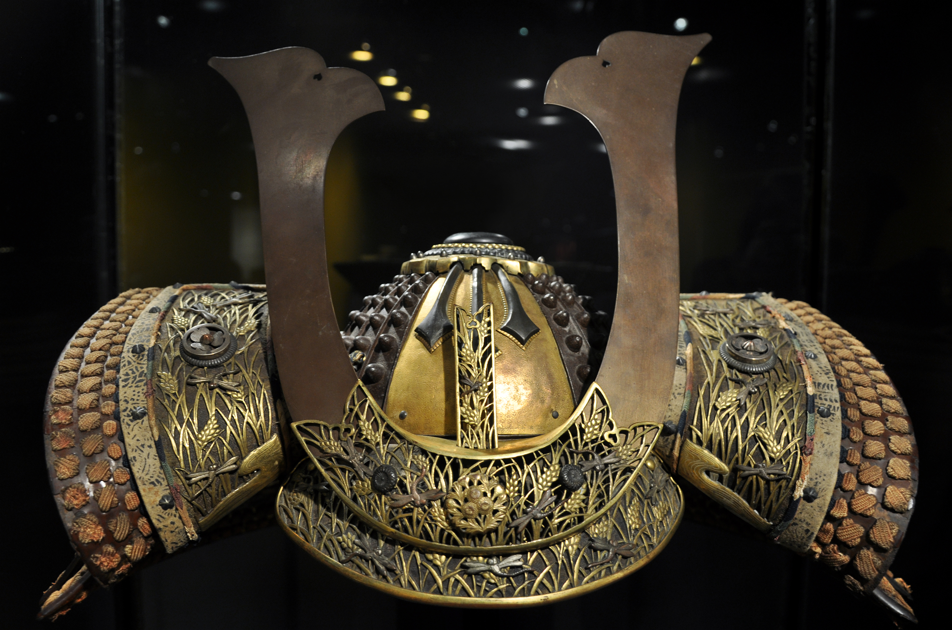 Samurai cask ( oboshi sujibachi kabuto ), Edo period, about 1730. The "mon" is Mitsudaina family's one. The cask is signed by Masuda Myochin Osumi no kami Kino Munemasa . Ann and Gabriel Barbier-Mueller Museum, Dallas (Texas) ; the photograph was taken during an exhibition in the Musée des Arts Premiers in Paris.